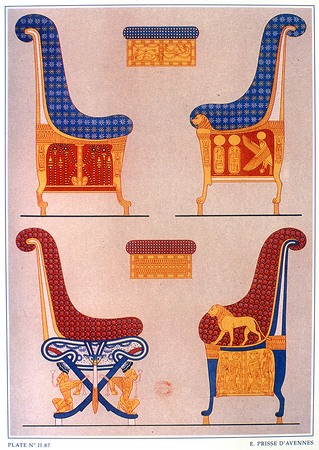 Chairs and foot stools. Scene from tomb of Ramses III. (KV11)